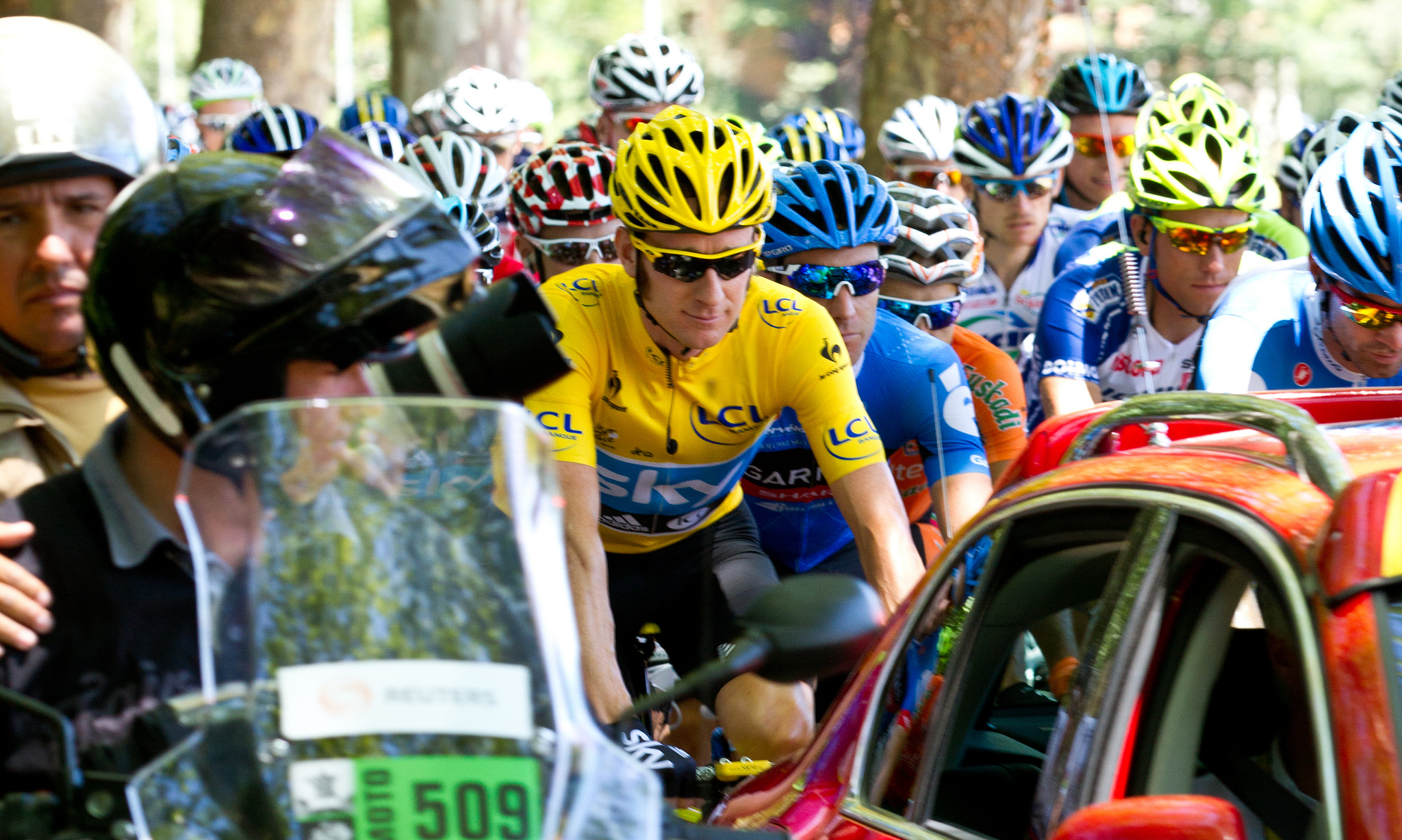 The peloton leaves Samatan with Bradley Wiggins leading on the 15th stage of the 2012 Tour de France